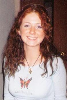 Lena Katina, one half of the Russian pop group, t.A.T.u..